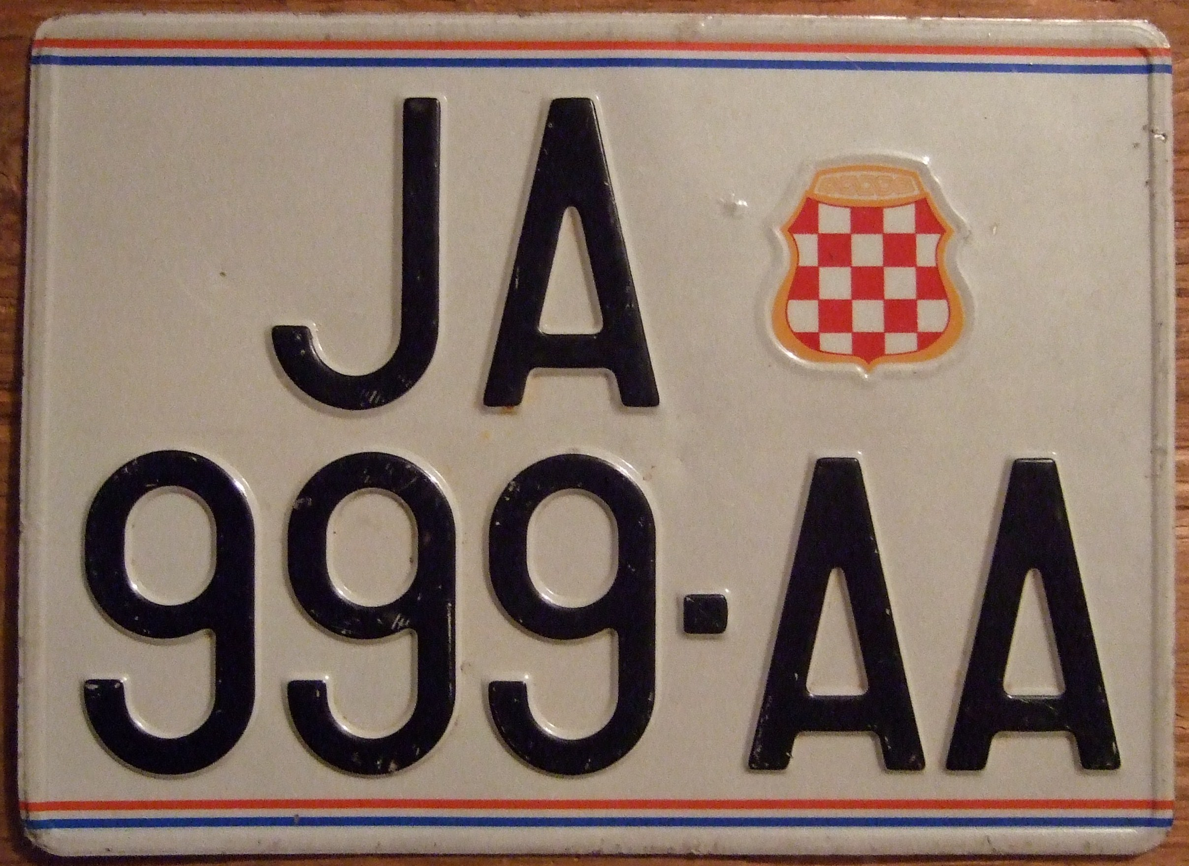 Two line license plate from the city of Jajce in Bosnia-Herzogovina. The Croation occupied region was called Herzeg-Bosna. This plate was issued in the city of Jajce during the Balkan War. When I got this plate I thought it was a sample plate by the number but it has its share of scrapes and dings and I had to clean up a lot of bug splatter.